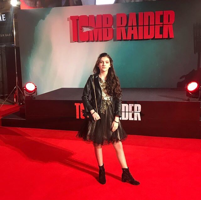 Actress Emily Carey on the red carpet at the Tomb Raider European Premiere